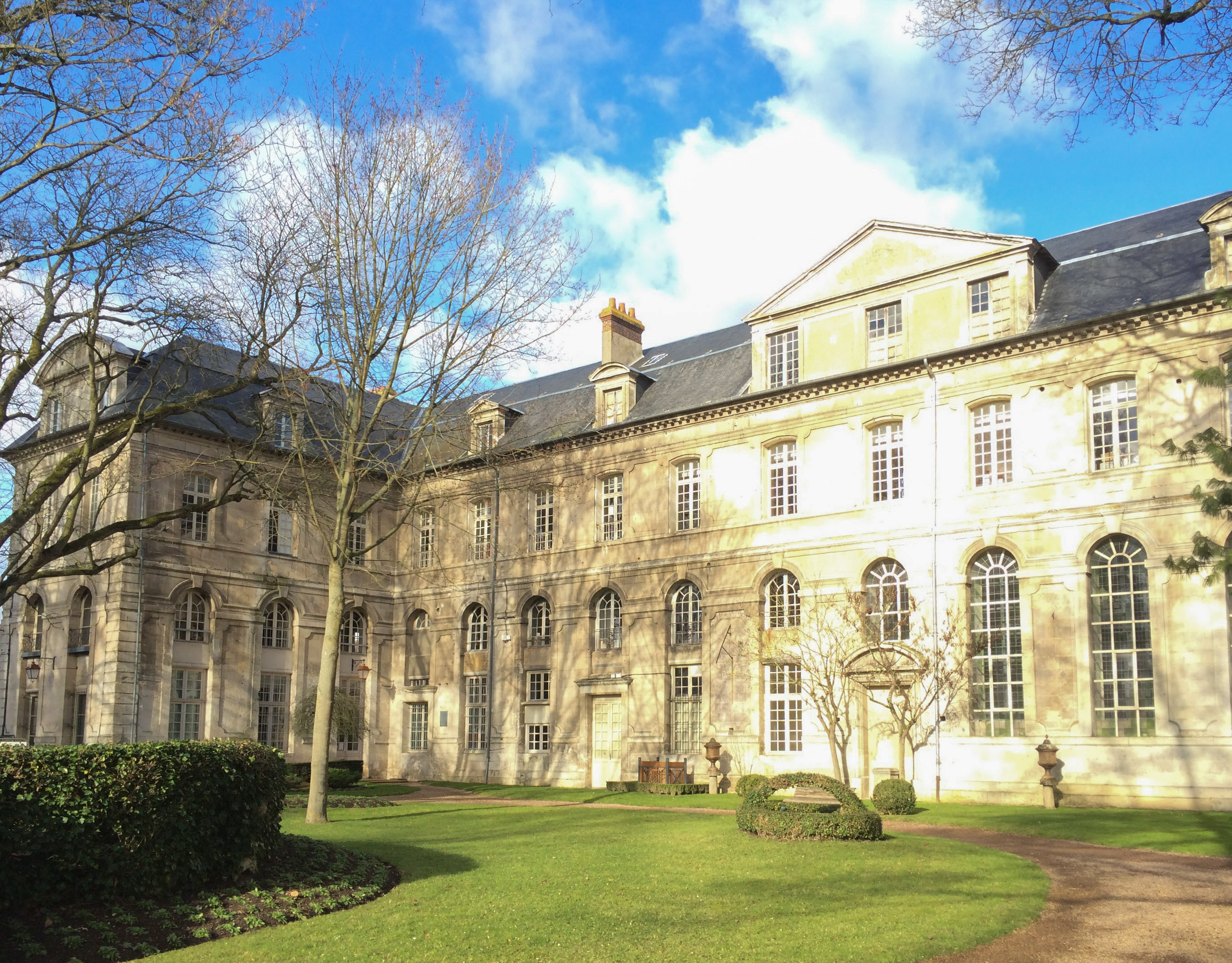 Tribunal de Bernay